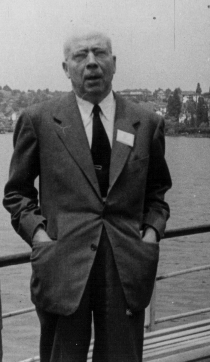 Santiago Salvat Espasa in Zurich, 1954